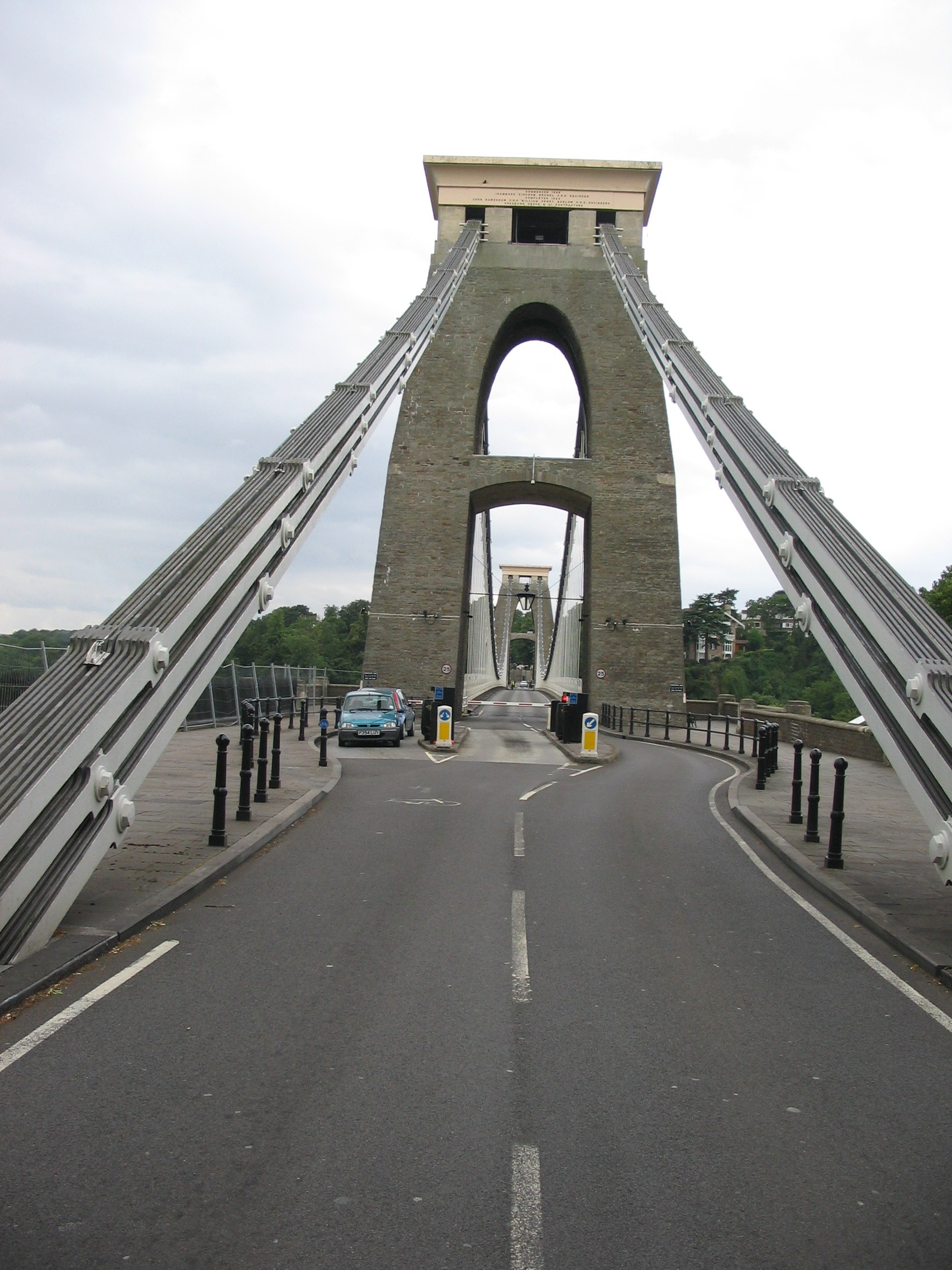 Clifton Suspension Bridge - Bristol - augustus 2006 - eigen foto